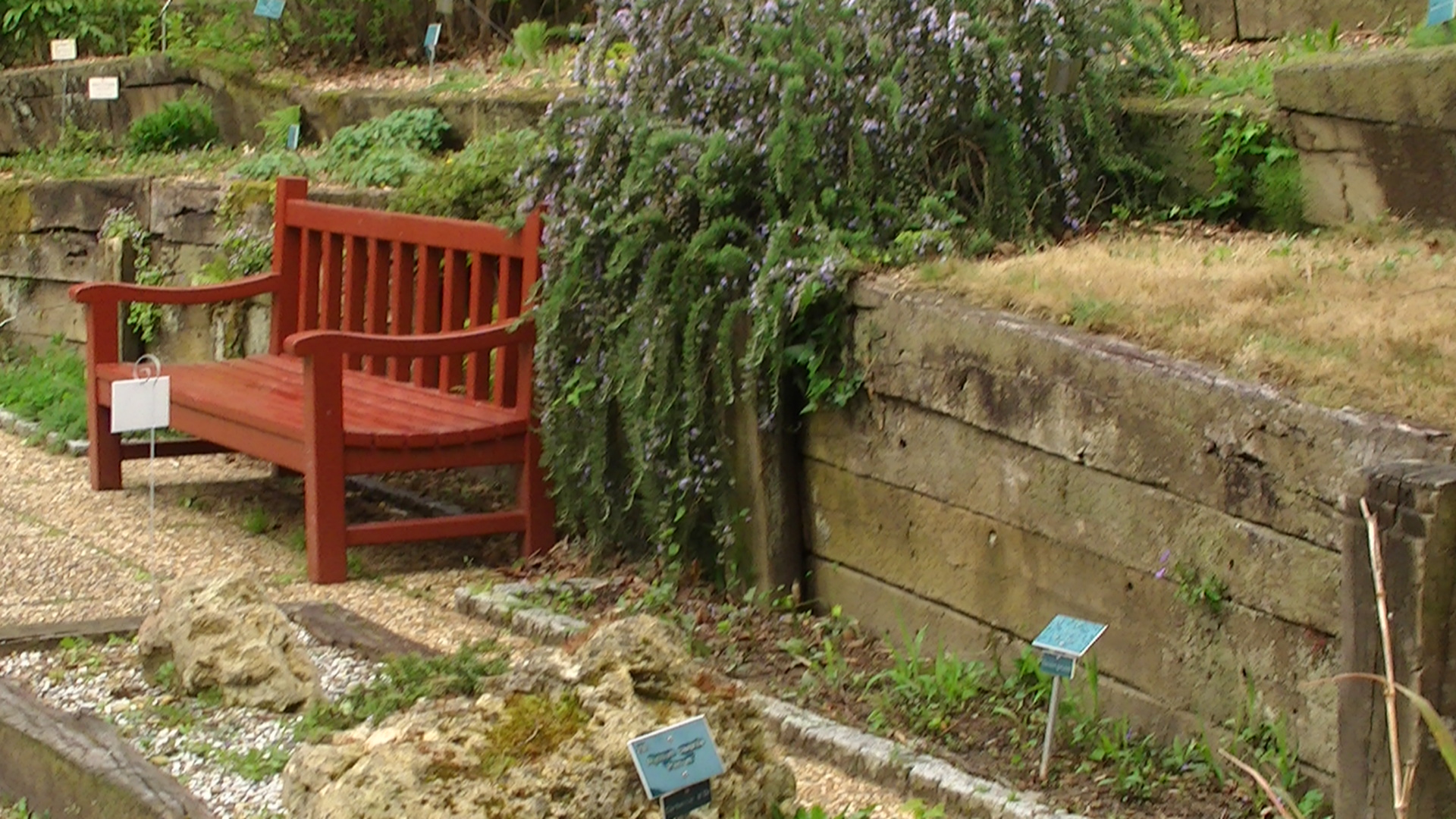 Bayonne botanical garden: view from "Sous Bois" section